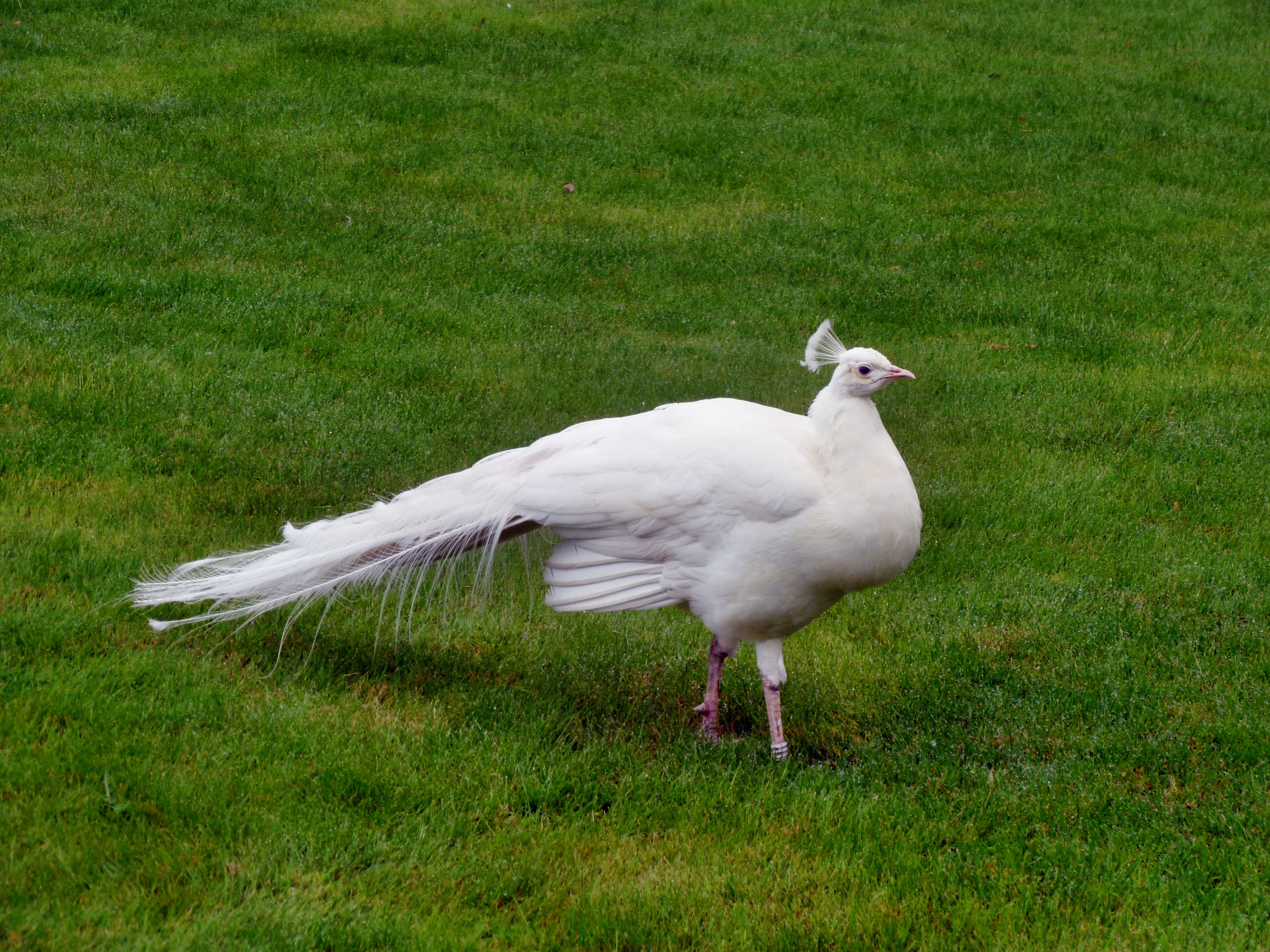 White peacock in the botanical gardens of the Palazzo Borromeo, Isola Bella, Italy